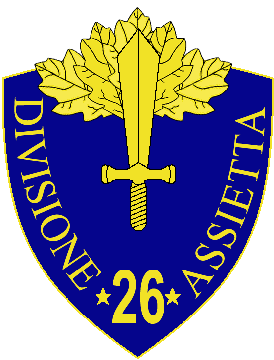 26a Divisione Fanteria Assietta insignia, Regio Esercito, Italy, WWII